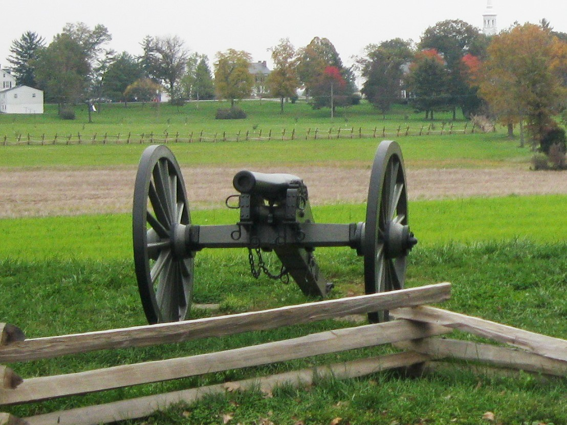 Photo shows a 3-inch Ordnance rifle along Reynolds Avenue South at Gettysburg National Military Park next to the Company L, 1st New York Light Artillery monument. The top of the Lutheran Seminary can be seen at right. View is toward the east.